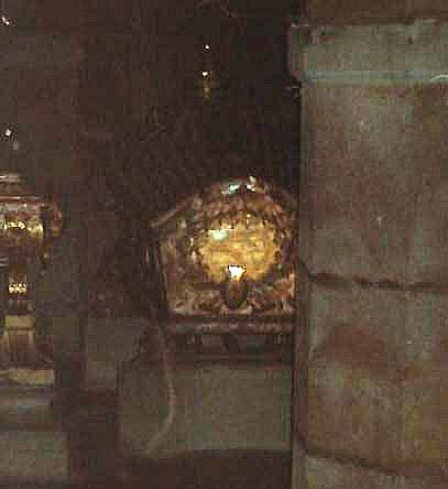 Grave of King Carl X Gustav of Sweden (1622-1660) in the crypt of the Caroline Chapel at Riddarholm ChurchPlace: Stockholm, Sweden